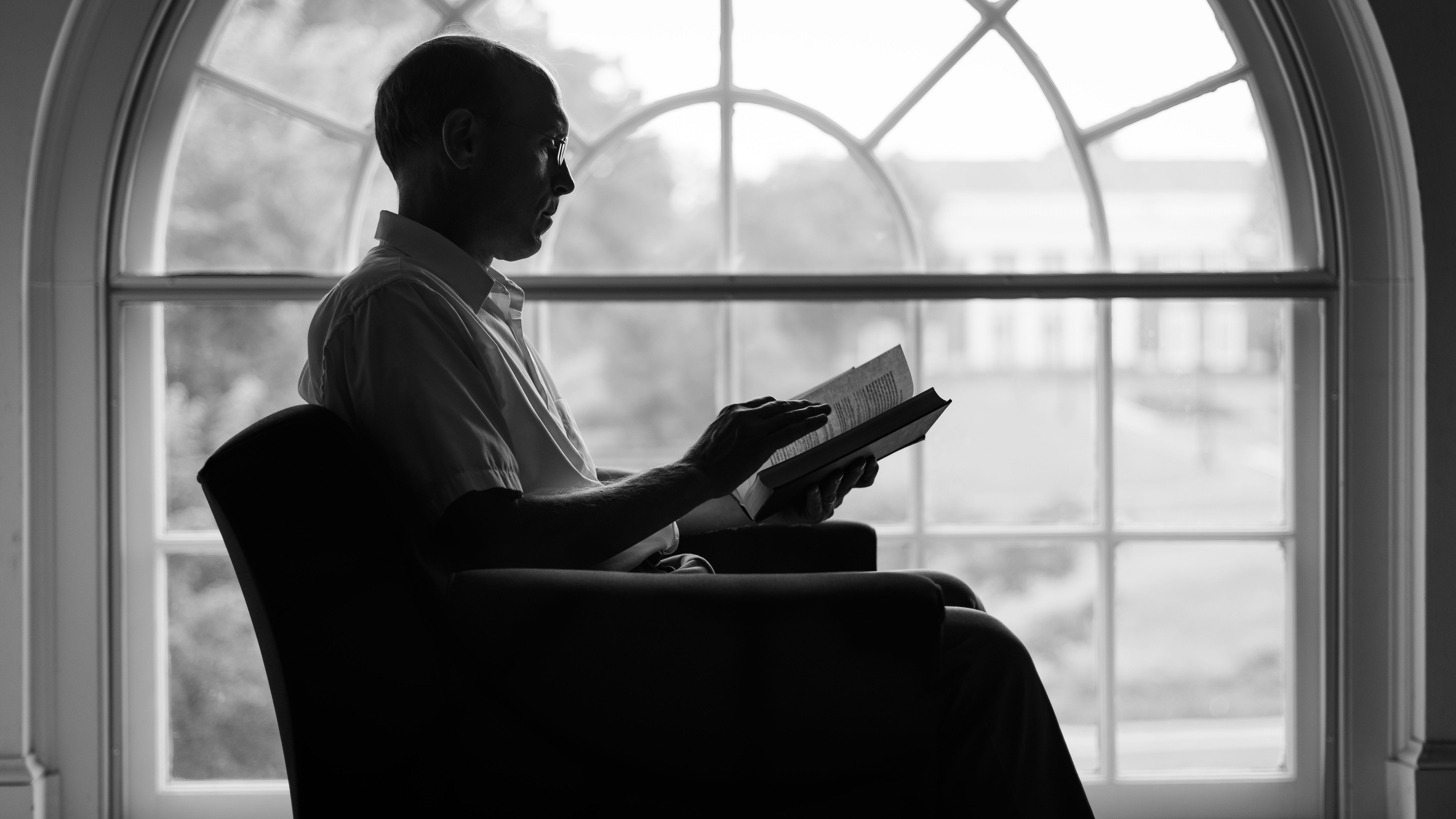 William Ferraro, Associate Editor with The Papers of George Washington at the University of Virginia.